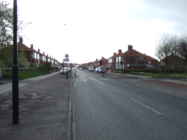 Fossway (A187) heading west